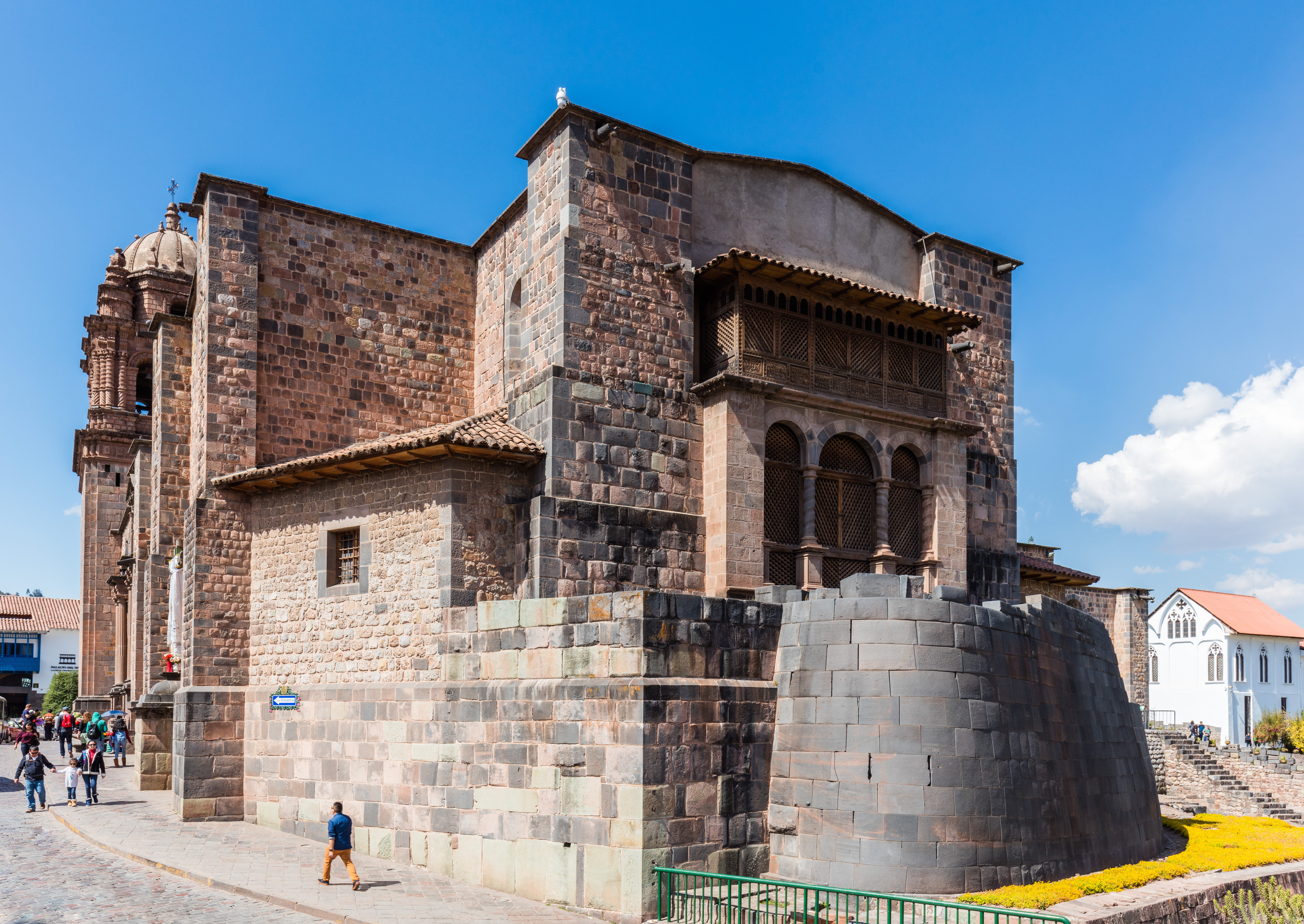 Coricancha, Cusco, Peru